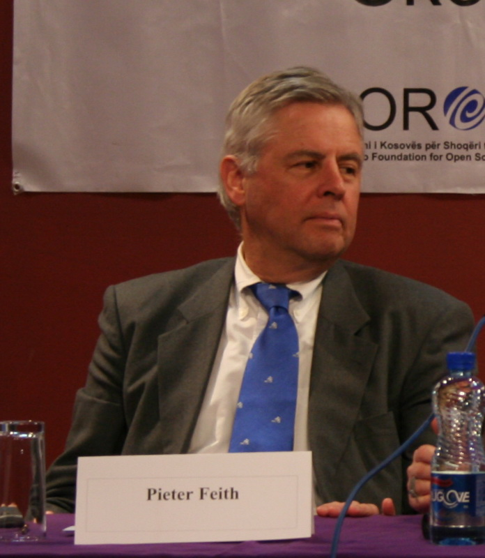 Pieter Feith, European Union Special Representative in Kosovo, April 8, 2008.